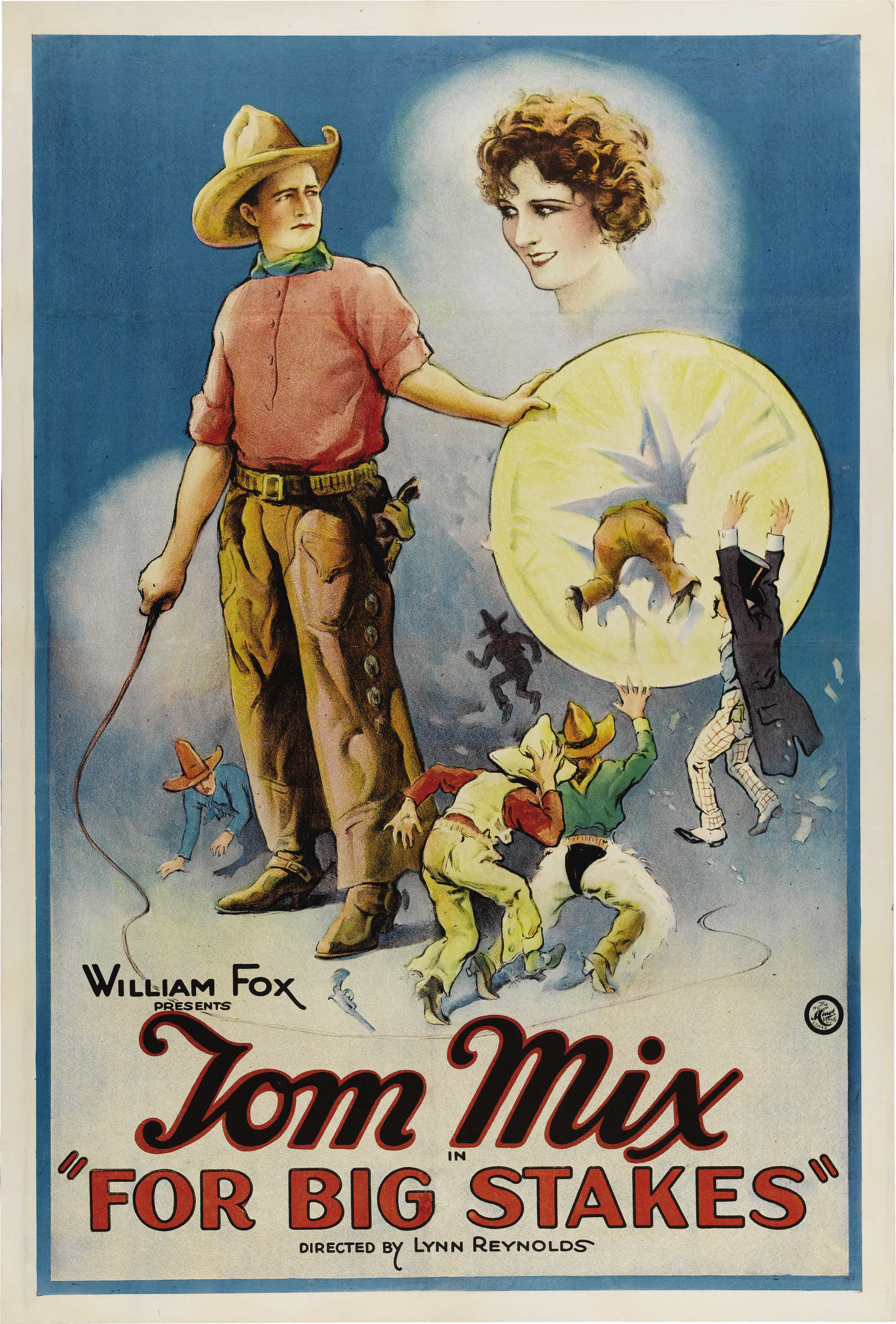 Movie poster for the American film For Big Stakes (1922).